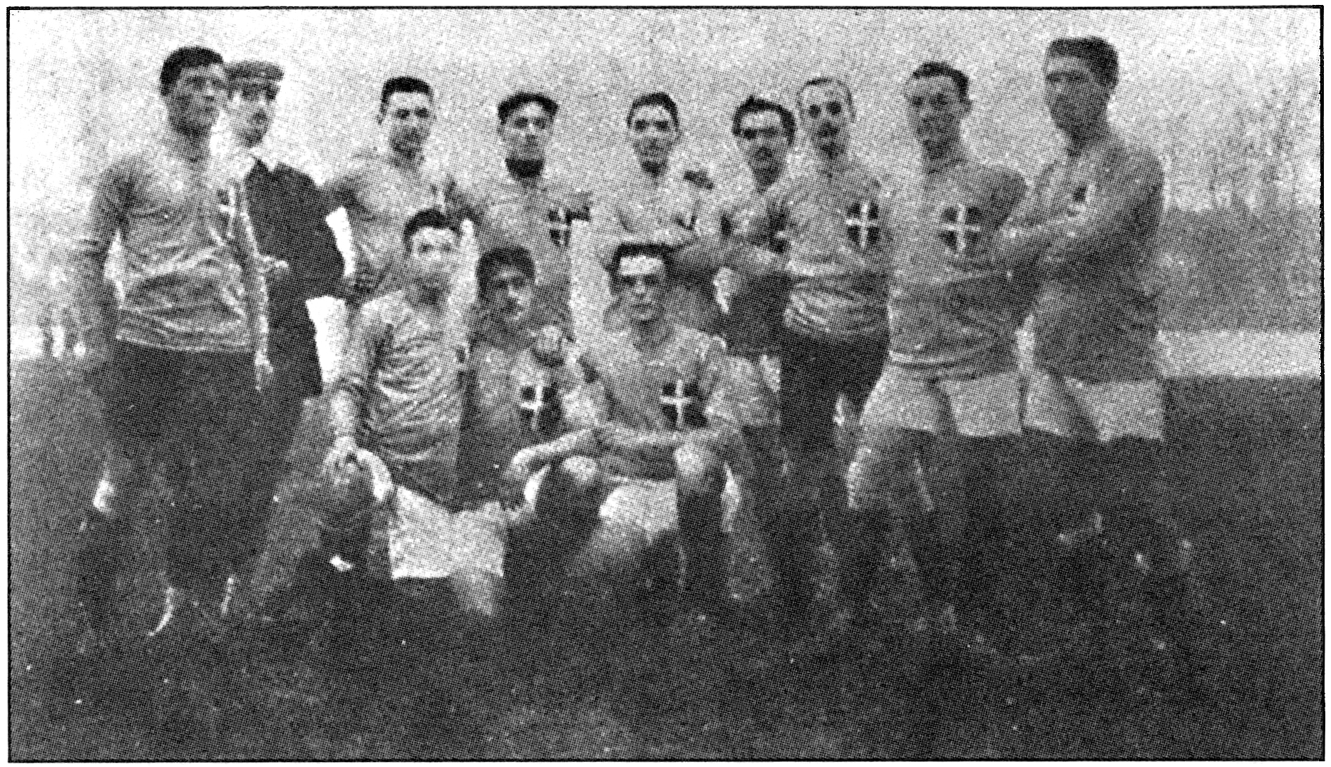 Italian national football team at the match with Hungary national football team, Milan, 6 january 1911. Italy dress for first time the maglia azzurra.